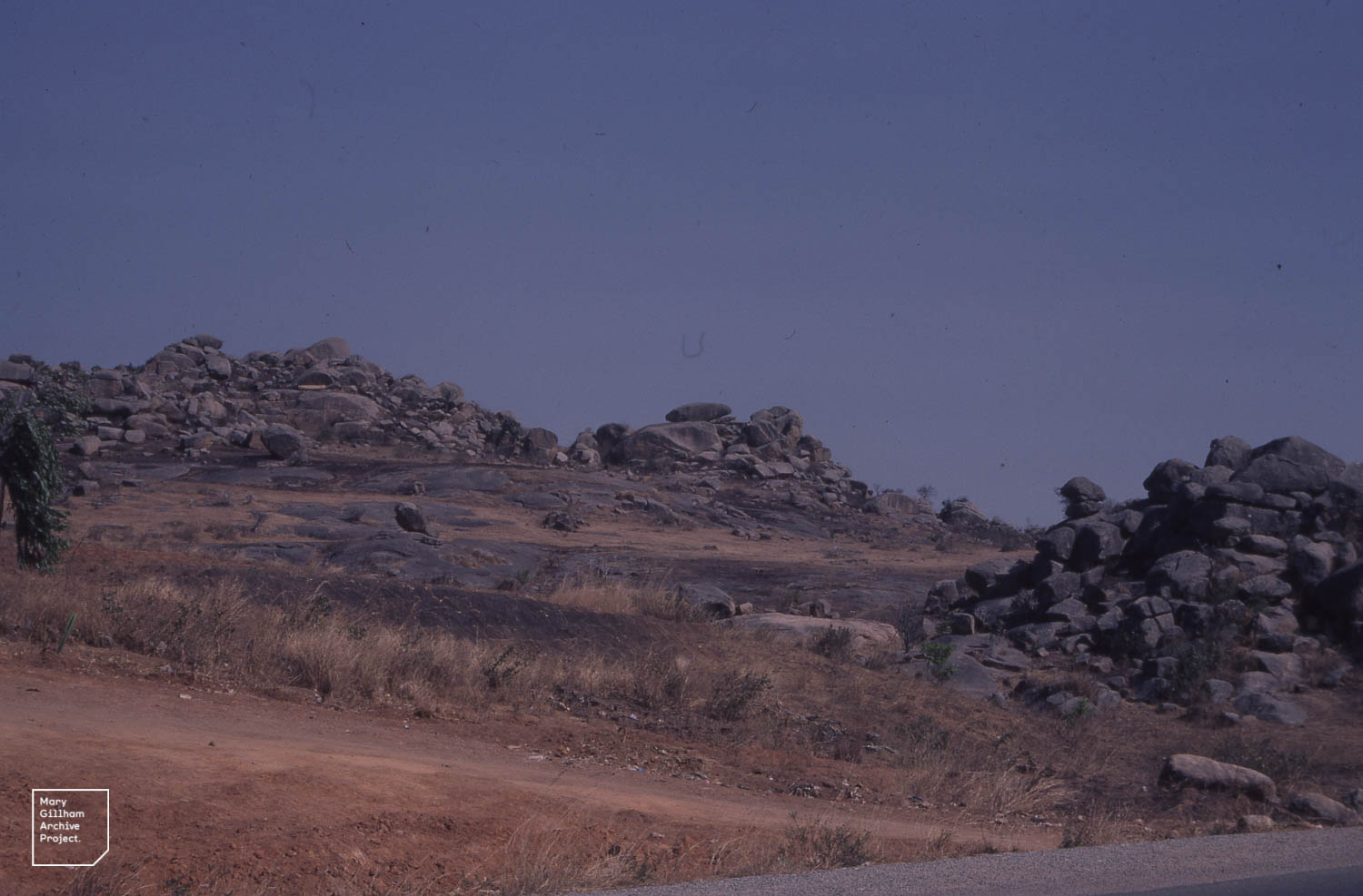 This is a image of rocky inselbergs, the most common habitat of rock firefinches.